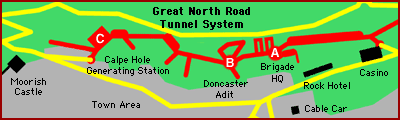 Map of the Great North Road is a large road inside a tunnel that was built within the Rock of Gibraltar. Picture from which is a cc by sa site